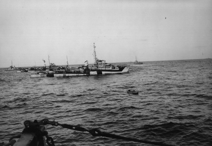 A liferaft carrying survivors from German submarine U-546 in the midst of a group of U.S. Navy destroyer escorts.